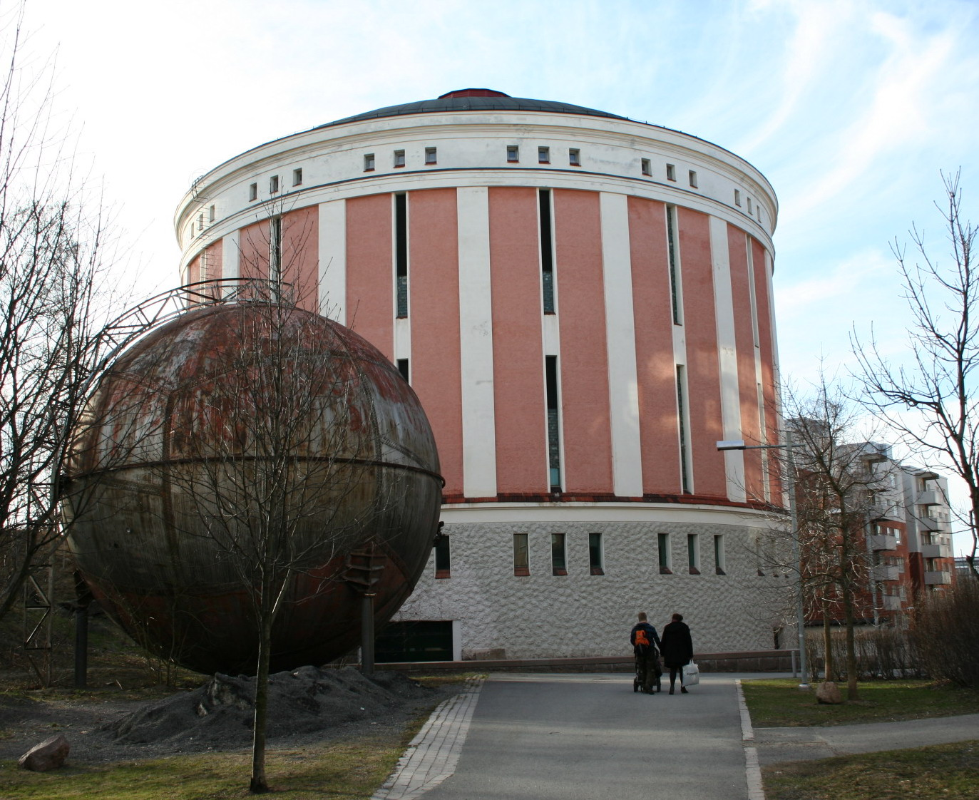 Gasometer in Turku, Finland. Gasometer was completed in 1912 and the football-shaped container in 1937. Gasometer exterior brick structure by architect Johan Eskil Hindersson (b. 1869 - d. 1941).